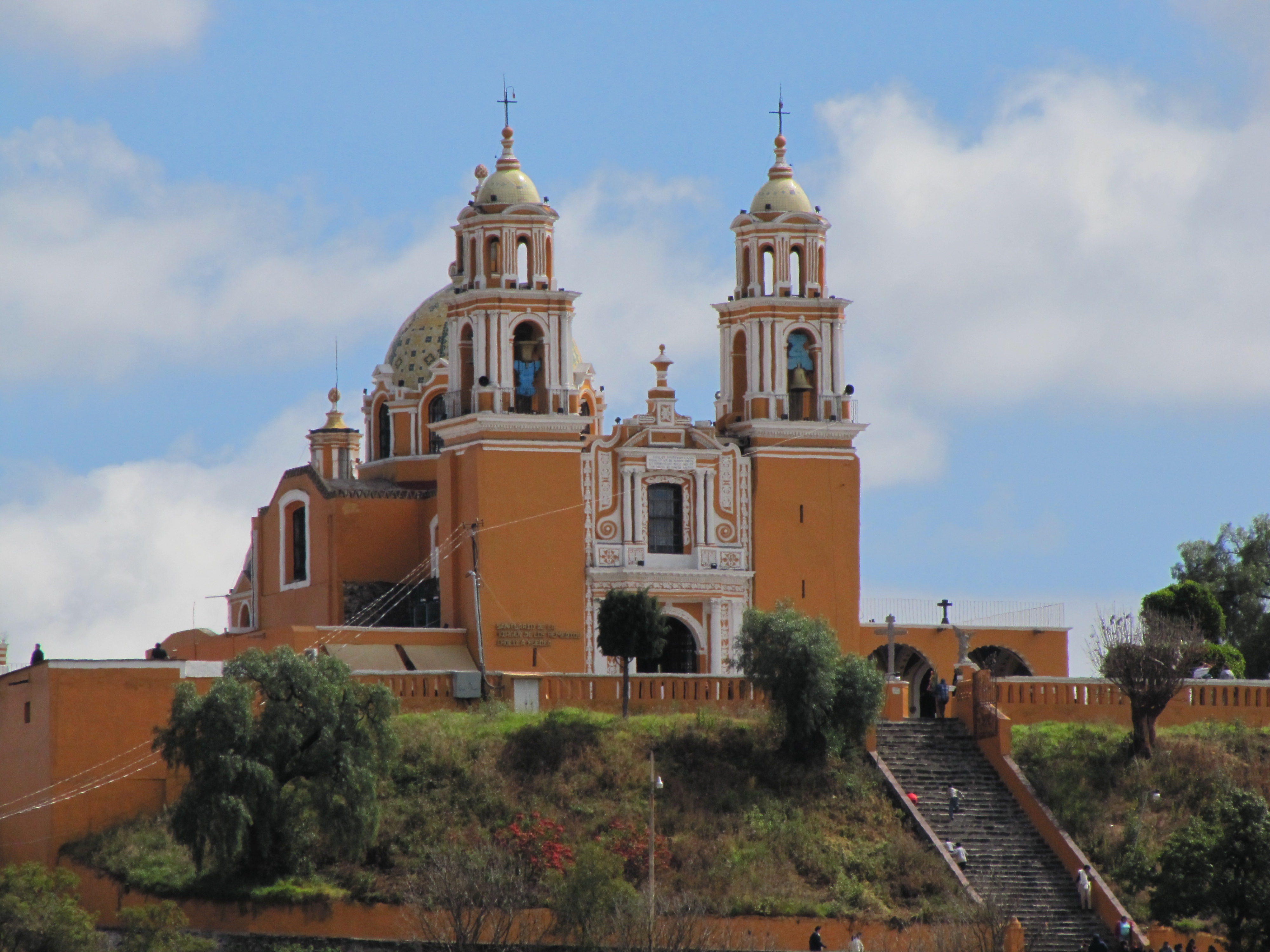 Church of Nuestra Señora de los Remedios, Cholula, Puebla, Mexico—front façade.